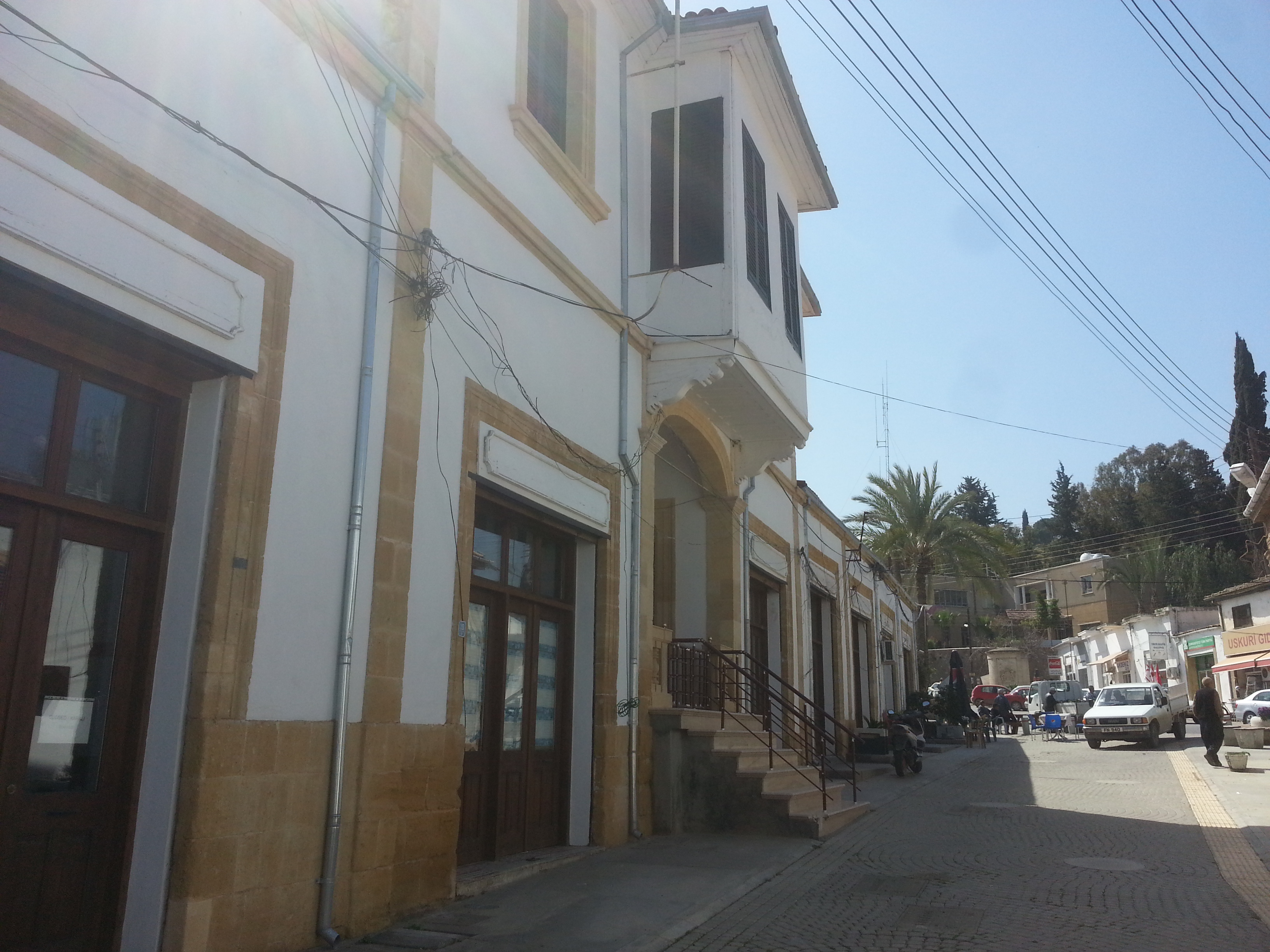 An old house in the commercial area of Lefka, Northern Cyprus